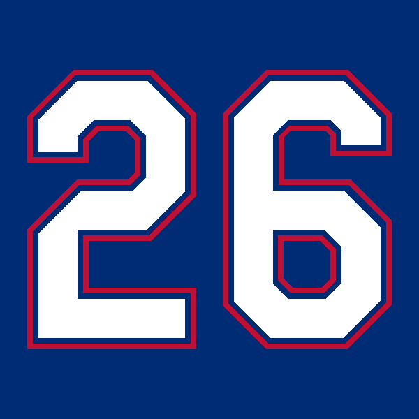 The number "26", retired for Johnny Oates by the Texas Rangers.